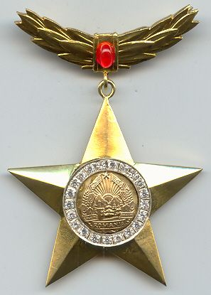 The badge of the "Hero of the Socialist Republic of Romania" honorary title, gold version with ruby